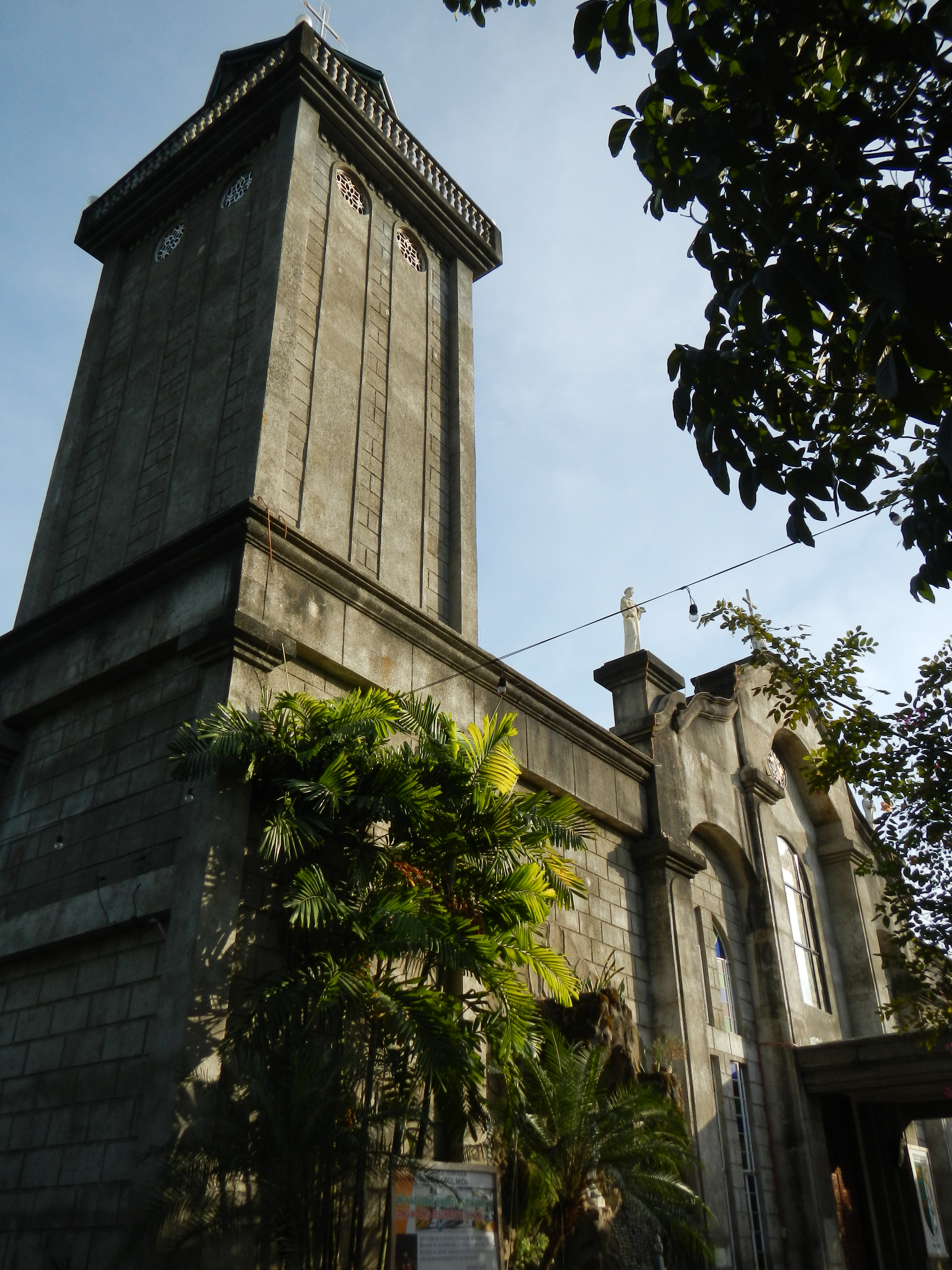 1849 St. Vincent Ferrer Parish Church, Roman Catholic Diocese of Cabanatuan[1](Dioecesis of Cabanatuanensis)Suffragan of Lingayen-Dagupan Comprises 16 towns of Southern Nueva Ecija, Cabanatuan City, Palayan City and Gapan City. Titular: St. Nicholas of Tolentine, September 10. Most Reverend Sofronio A. Bancud, SSS, DD Zaragoza (F-1849), 3110 Nueva Ecija; Titular: St. Vincent Ferrer, April 5, Parish Priest: Fr. Nezelle O. Lirio[2][3]Priests in Residence: Rev. Fr. Joseph B. Azarcon (School Director) Rev. Fr. Alfonso S. Saulo Feast April 5 Zaragoza, Nueva Ecija[4]